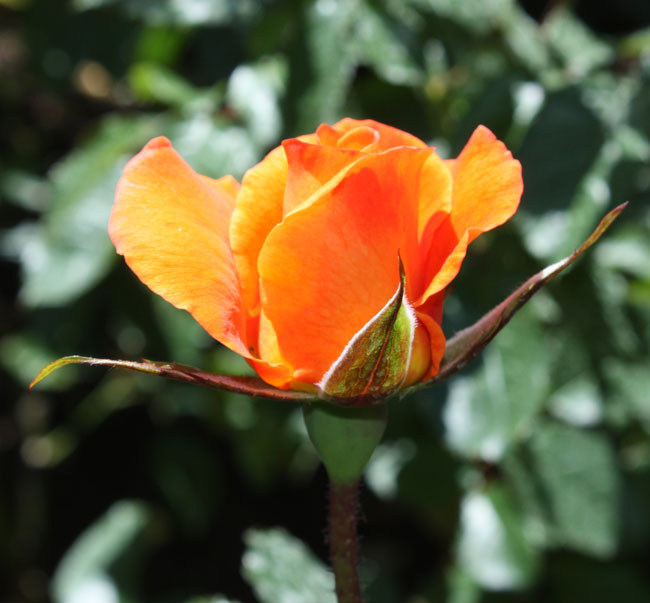 New Year Bud